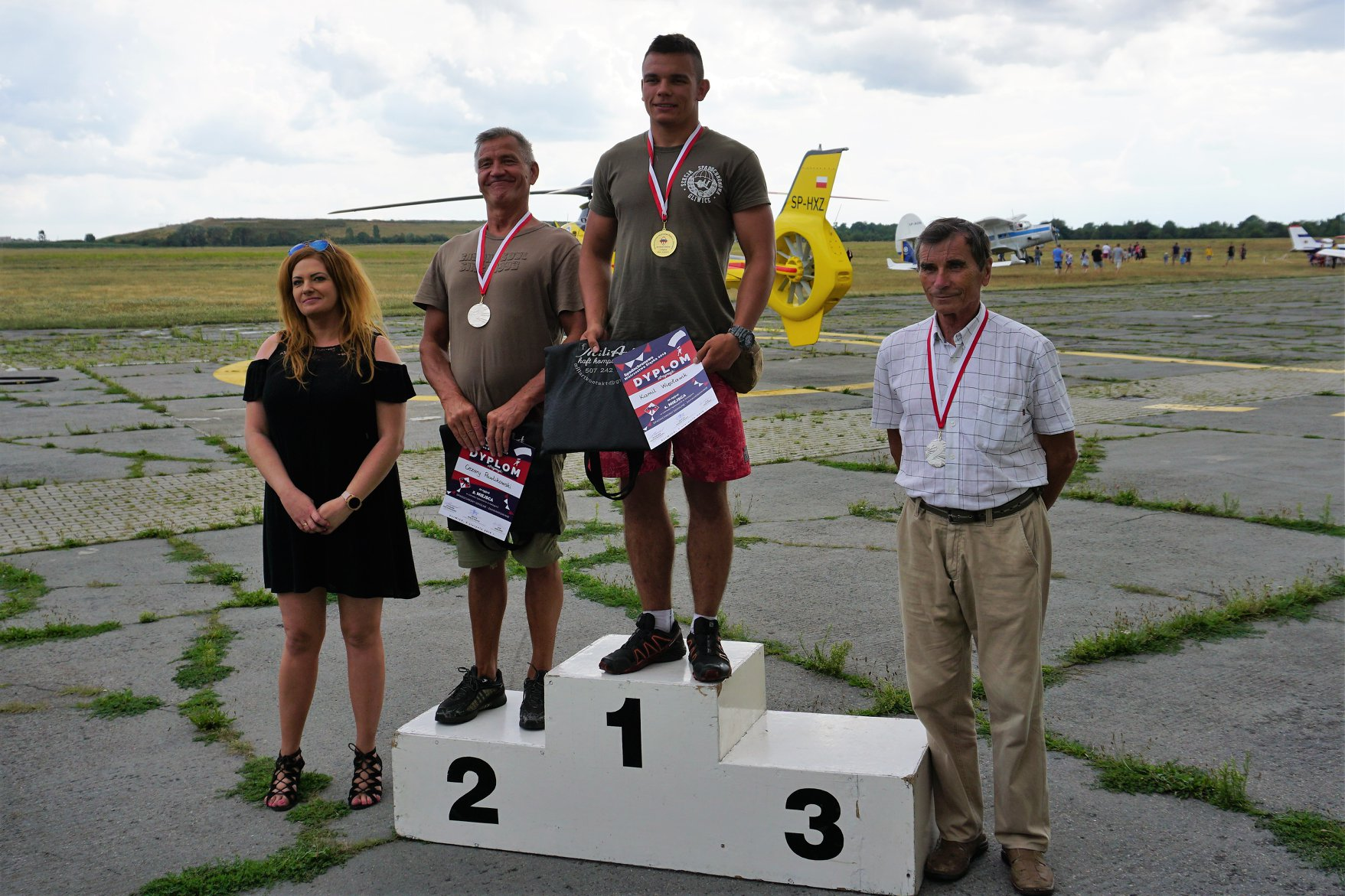 Skydiving Championships of Silesia in 2019